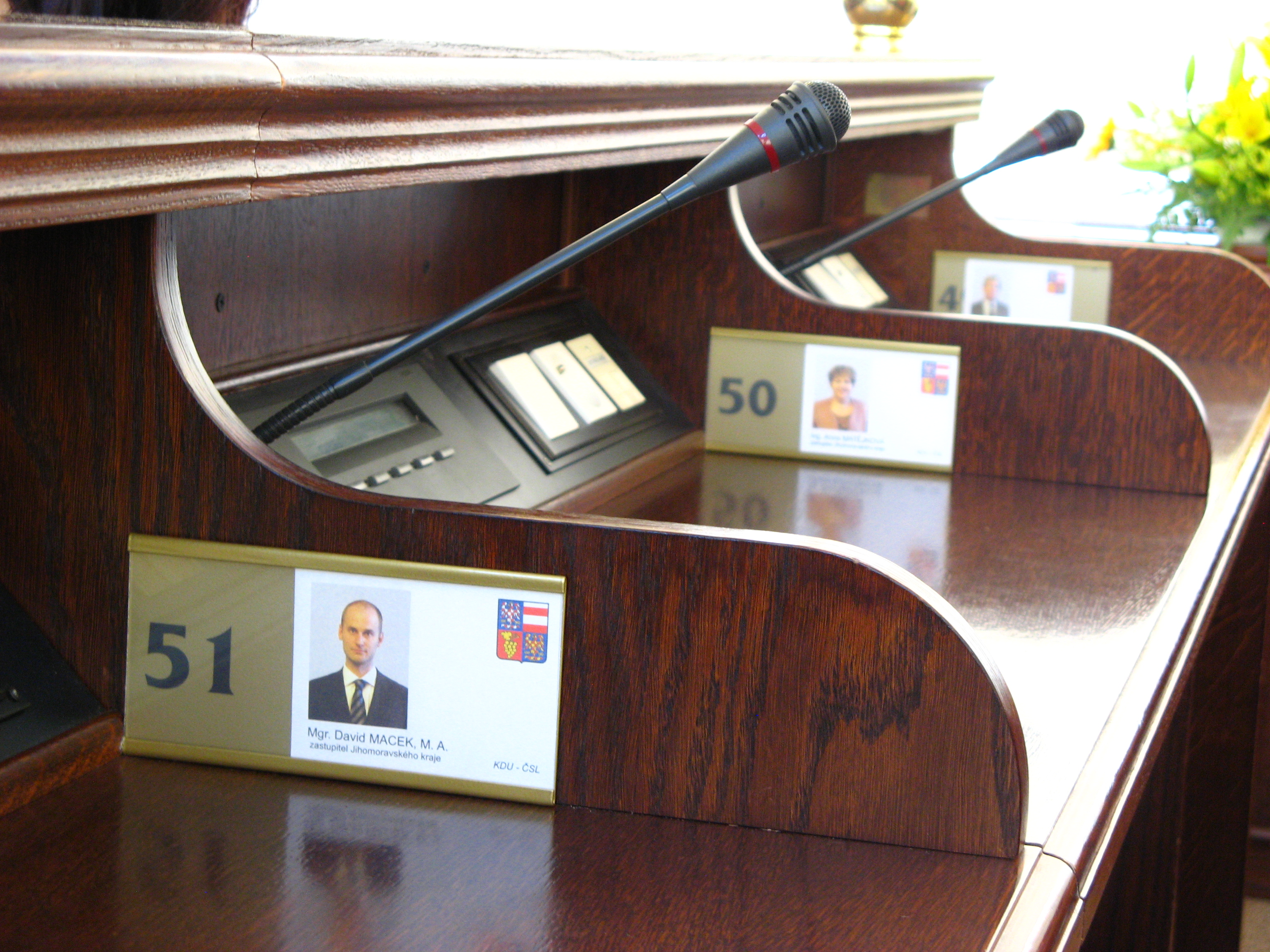 New regional palace, Zerotinovo square 3/5, Brno, Czech Republic. M.P. seats with a voting system.